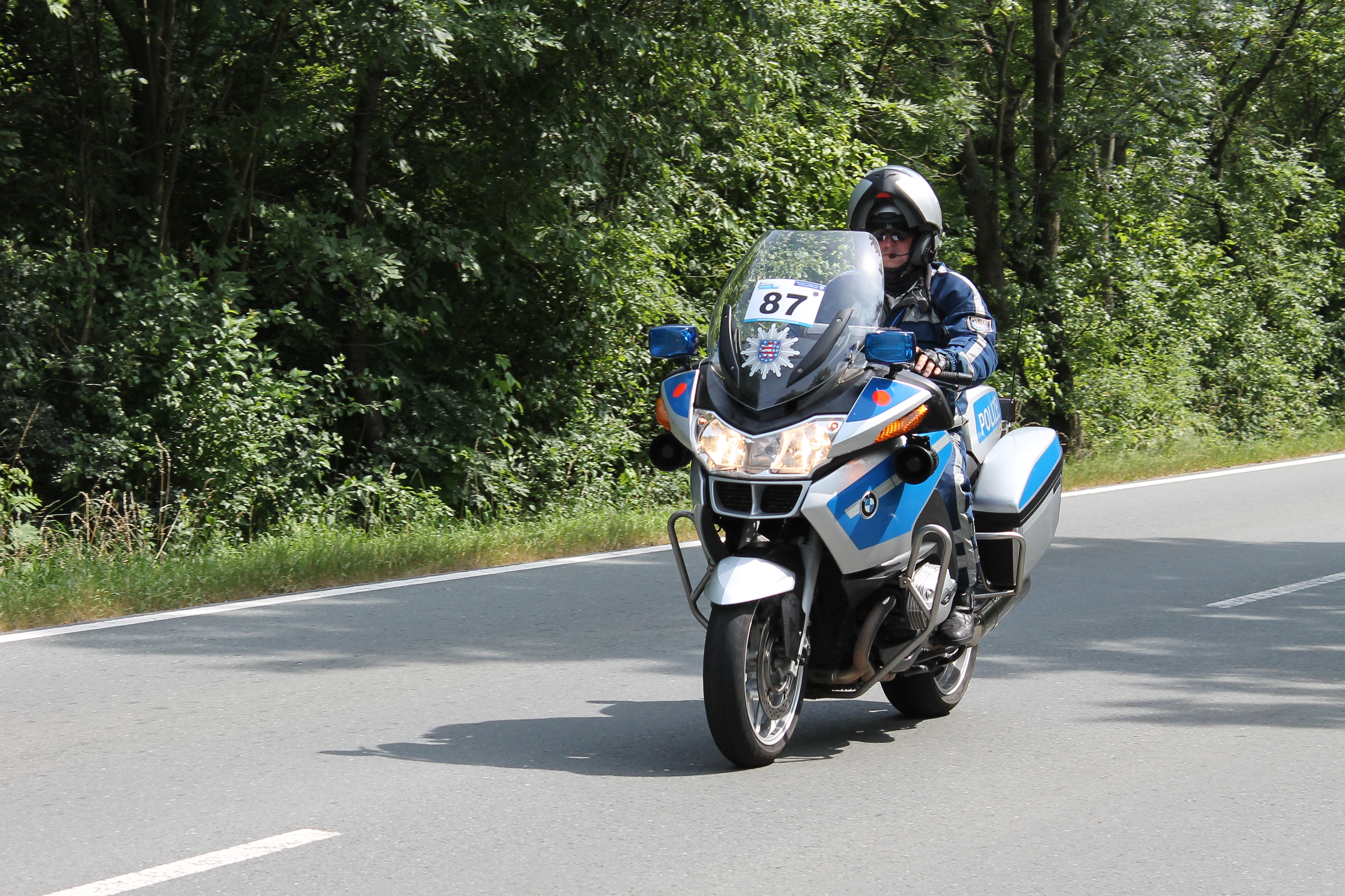 Police motorcycle at the Thüringen-Rundfahrt der Frauen 2013